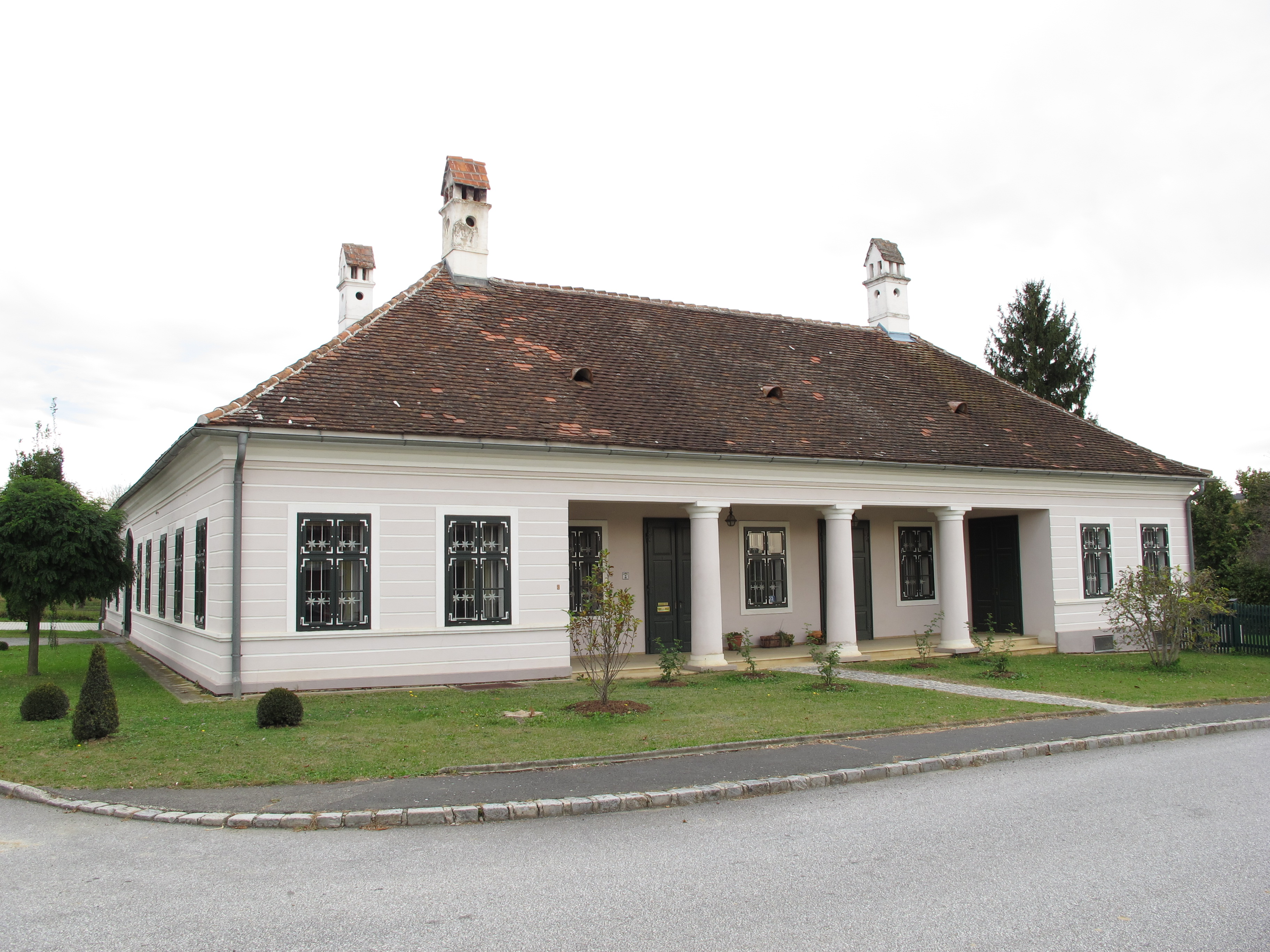 Ebenspangerhaus Eltendorf